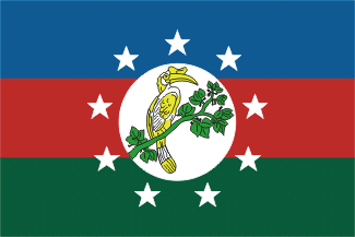 Flag of Chin State